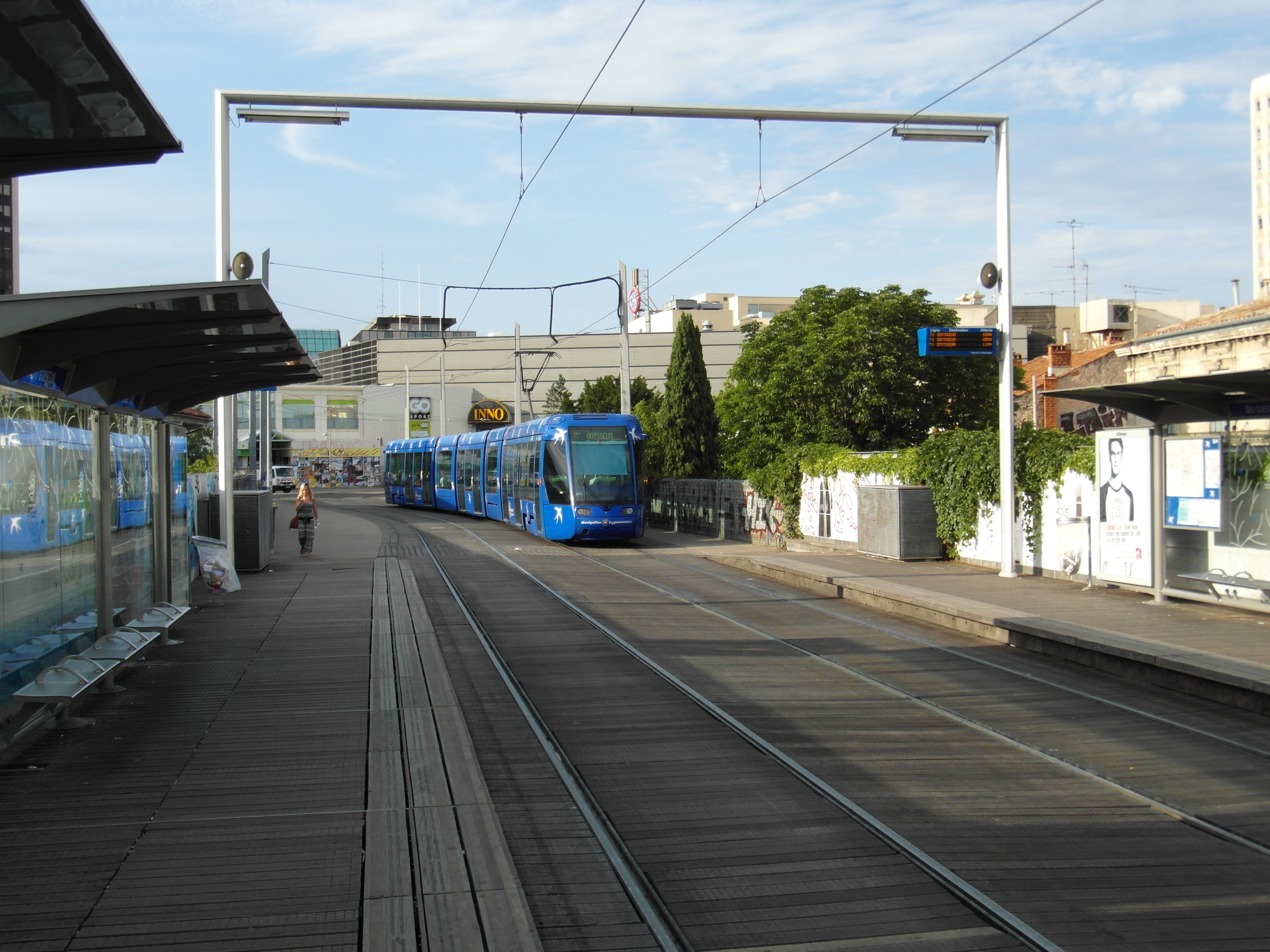 Montpellier - Tramway - Ligne 1- Mosson-Odysseum